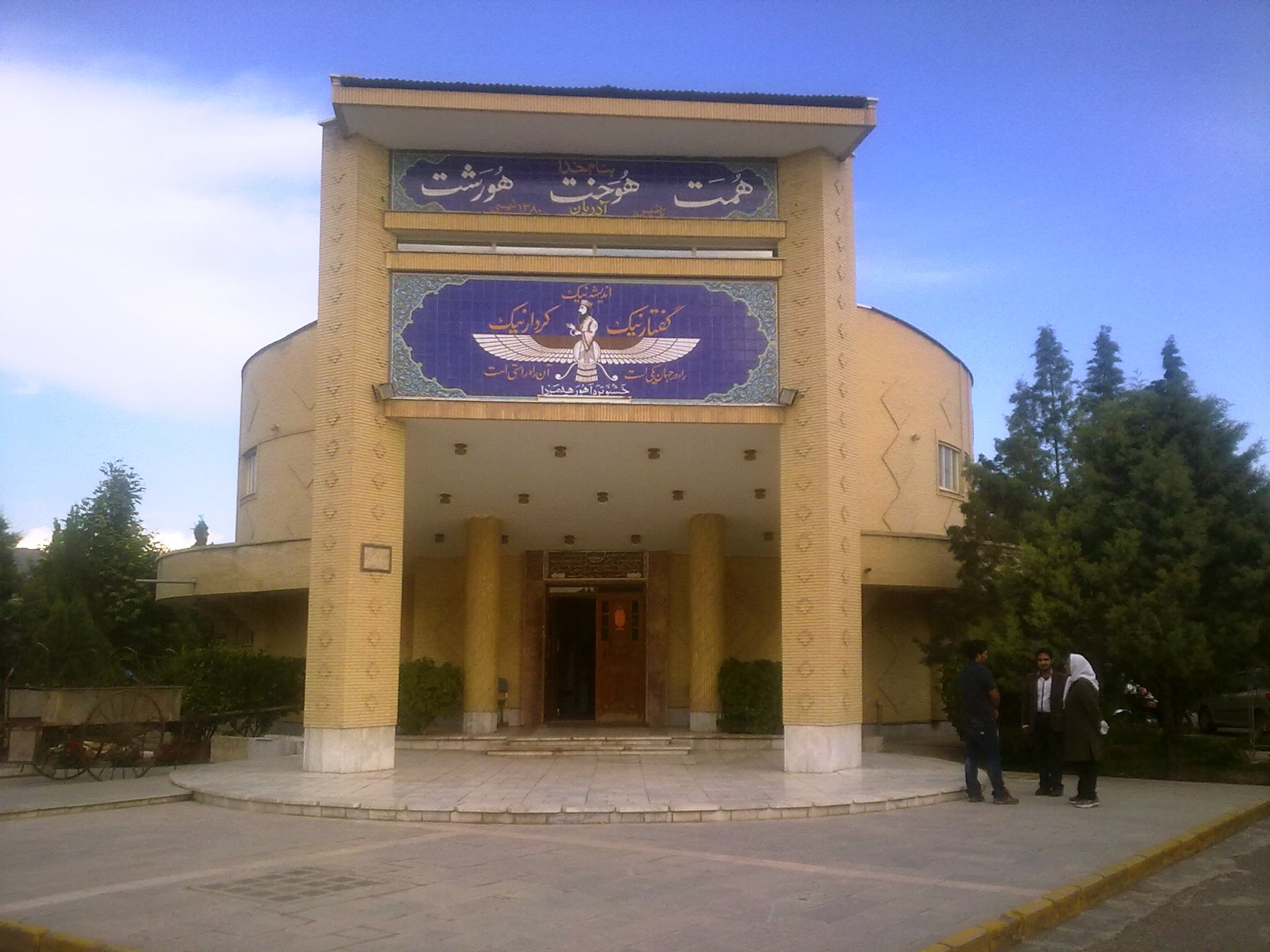 Main entrance of the Museum of Zoroastrians. It's the only Museum of Zoroastrians in the world.